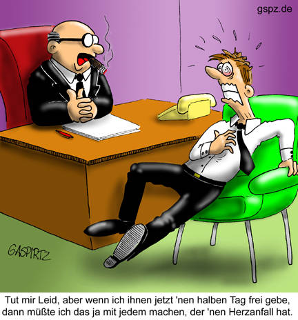 A cartoon about a man who is having a heart attack at work. The manager says he cannot leave, because if he allows this employee to take a half-day off work for medical reasons, then he will have to let everyone who is having a heart attack take a half-day off work.